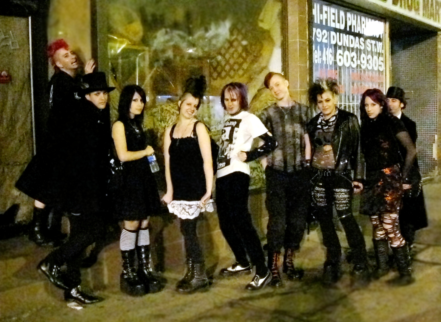 Depicts individuals of the Toronto goth scene after leaving a goth rock event at Z on Dundas Street, in Toronto Canada. Photographer: David Zvekic, August 4 2008